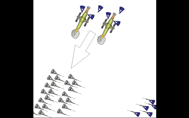 Enfilade_Fire.png - drawing explaining enfilade fire concept (military)